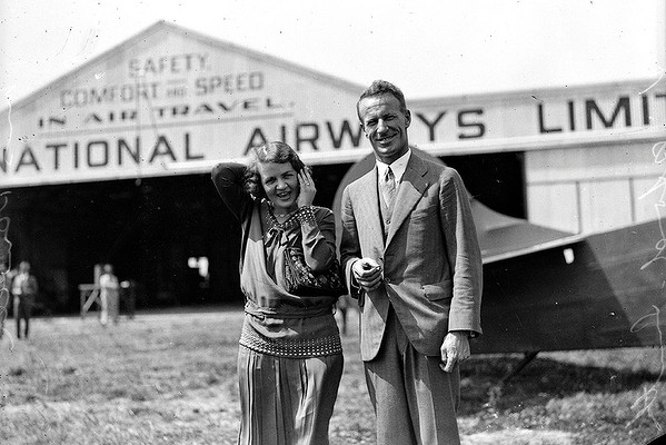 Charles Kingsford Smith